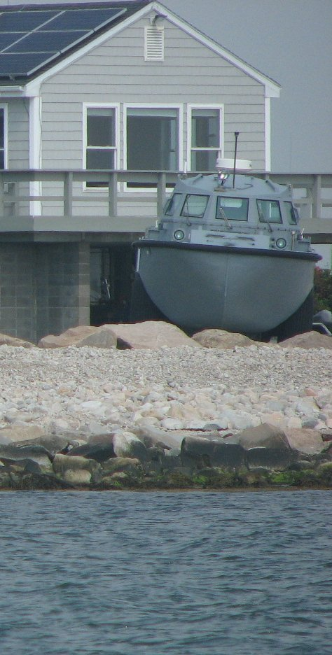 The North Dumpling Navy's LARC-V